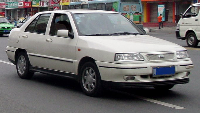 Chery Fengyun (Windcloud) SQR7160